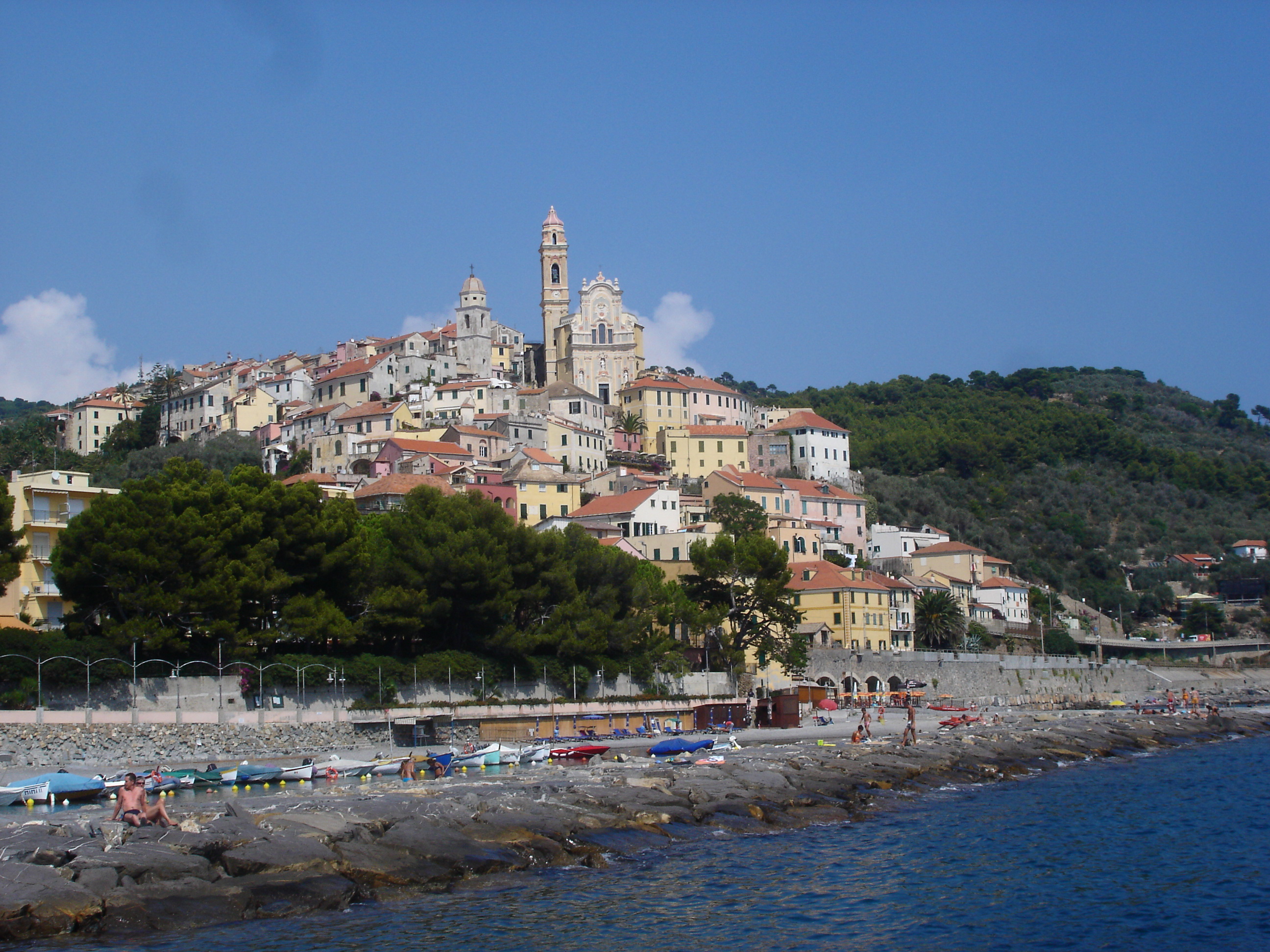 The municipality of Cervo in Imperia Province, Northern Italy. Taken September 2007.